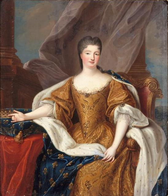 Portrait Marie Anne of Bourbon-Conti, Duchesse of Bourbon (1689–1720), misidentified with Caroline of Hesse-Rotenburg, Duchesse De Bourbon (1714-1741)